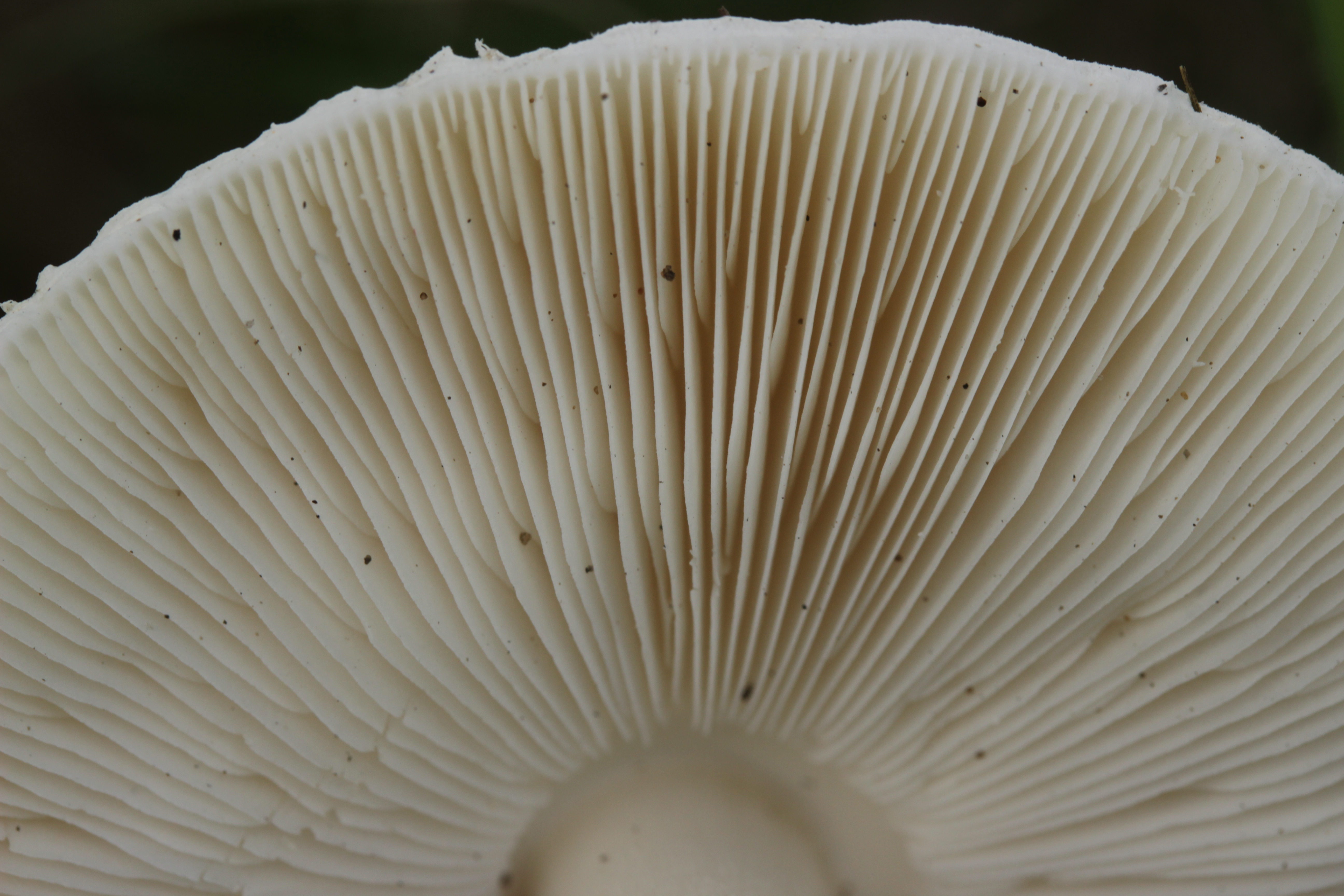 White Dapperling - Leucoagaricus leucothites